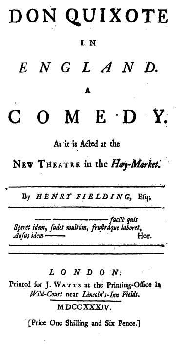 Fielding, Henry. Don Quixote in England. A comedy. As it is acted at the New Theatre in the Hay-Market. London: Printed for J. Watts, 1734.